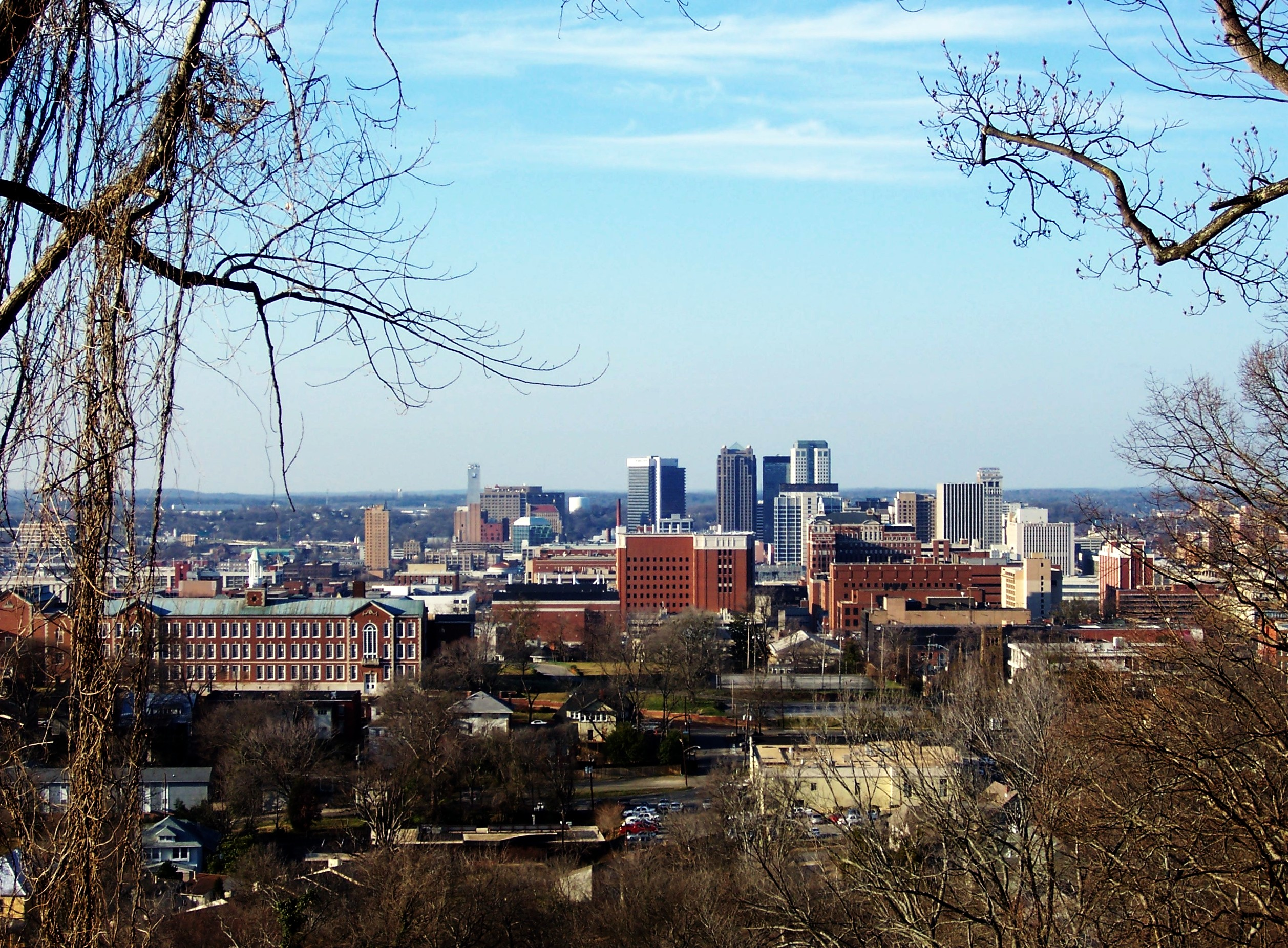 Image taken of the Birmingham, Alabama skyline from just below the Vulcan statue on Red Mountain.